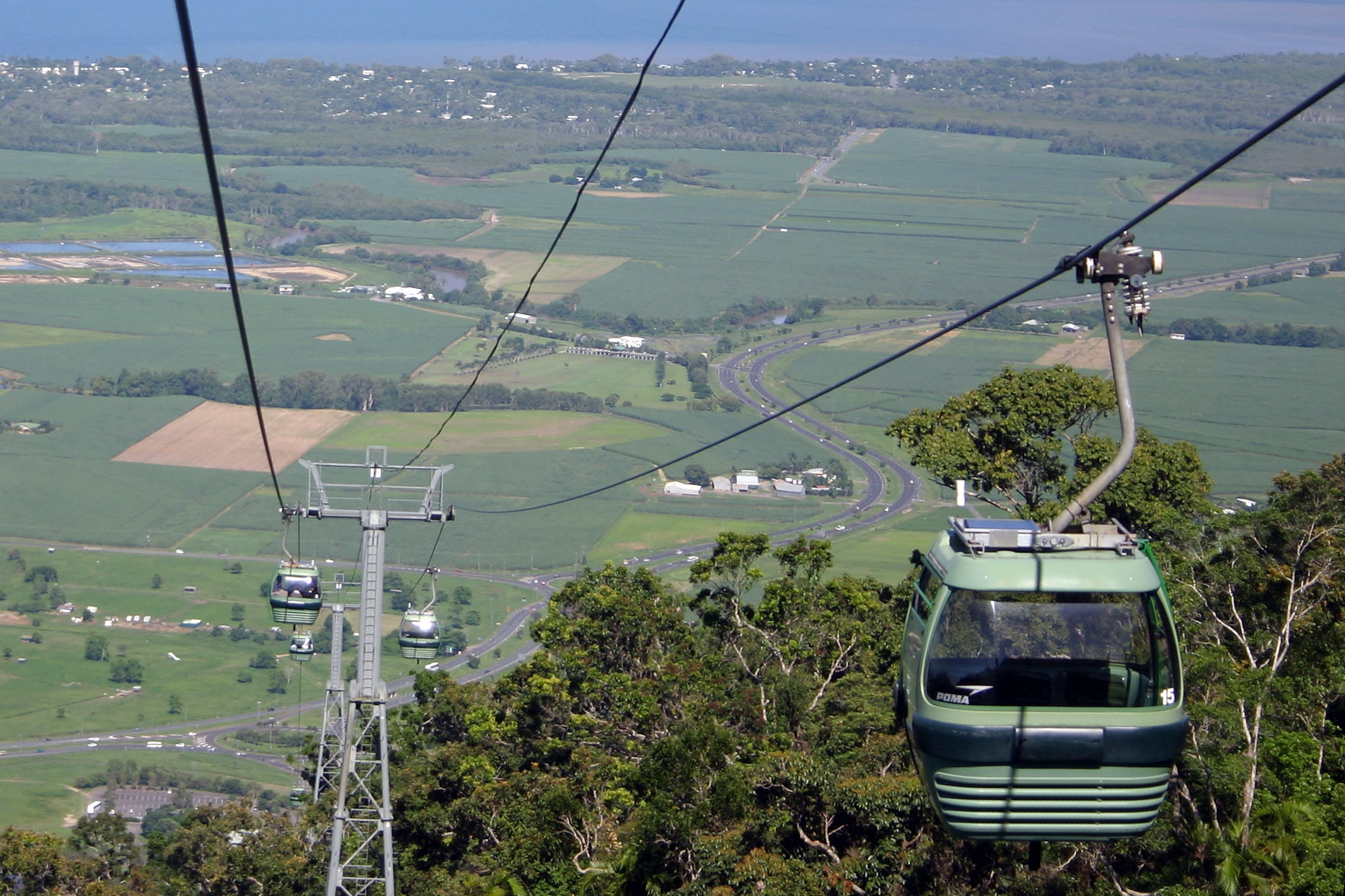 Skyrail Rainforest Cableway - Cairns, Queensland, Australia